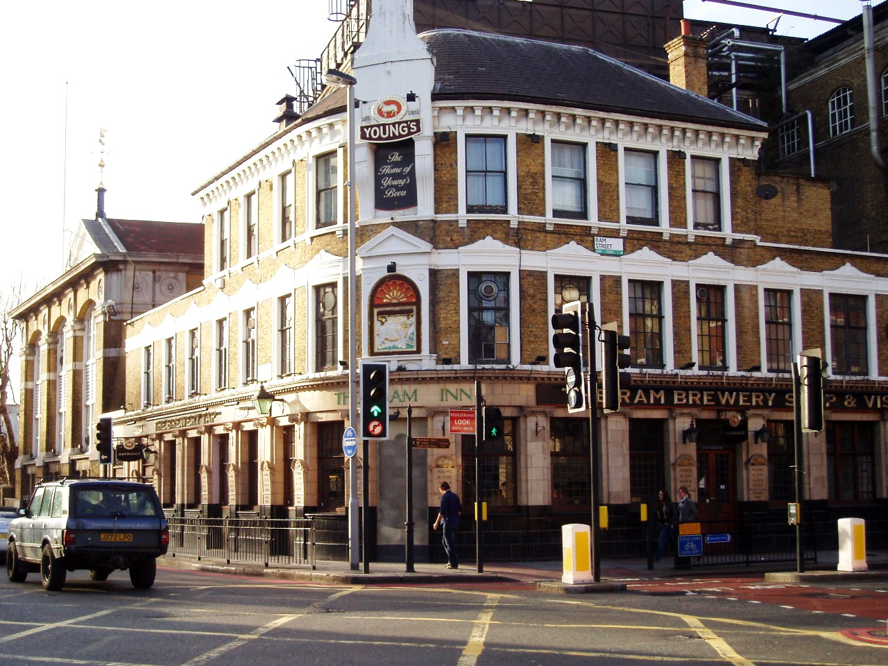 The Ram Inn (founded 1533) which established the Ram Brewery, latterly owned by Young's. It closed with the brewery (a vast presence right in the centre of Wandsworth) in 2006, but re-opened in 2019. It was in the first Good Beer Guide. Address: 68 Wandsworth High Street. Former Name(s): The Brewery Tap; The Ram Hotel. Owner: Lee and Keris De Villiers Links: Pubs Galore Beer in the Evening